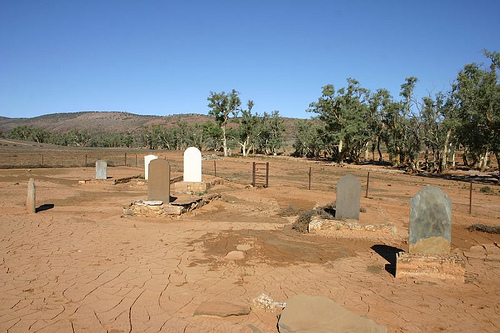 This very old cemetery has taken a bit of a battering from the amazing rains that fell just days before our visit to the Kanyaka Homestead. Photo taken 24th January 2007